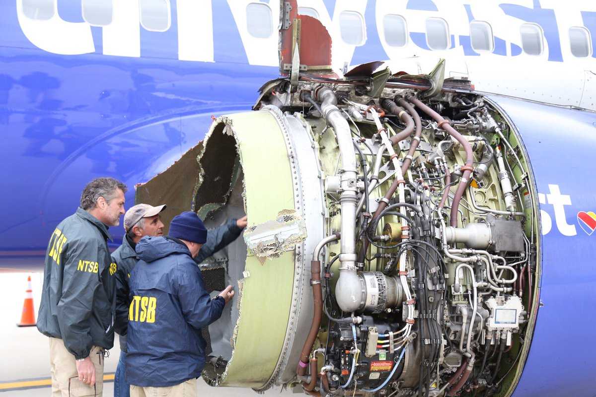 Employees of the National Transportation Safety Board inspects the damaged CFM56 turbofan jet engine of the Boeing 737-700 involved in the Southwest Airlines flight 1380 incident on 17 April 2018. Aircraft Registration N772SW